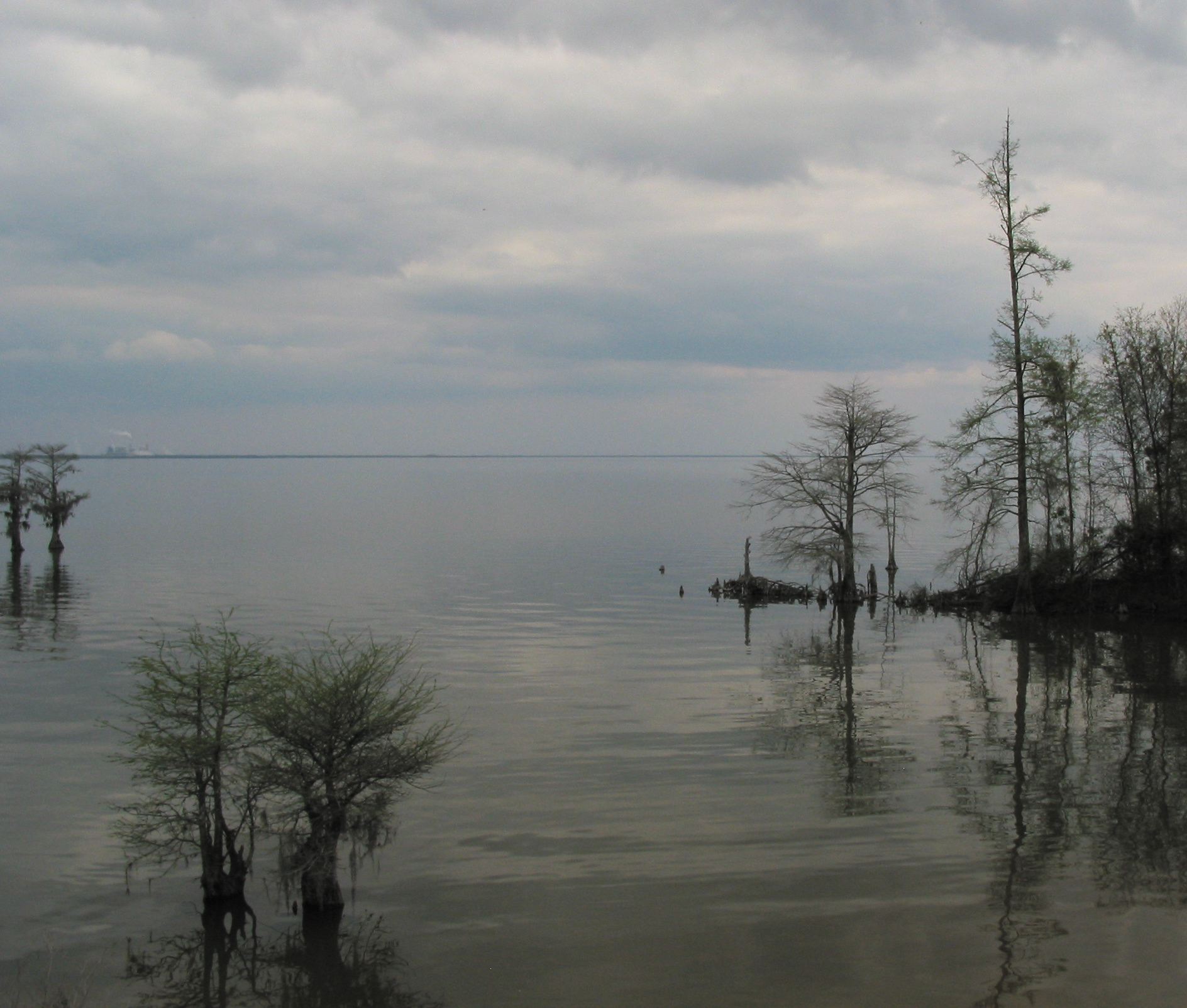 A picture of Lake Moultrie, South Carolina.